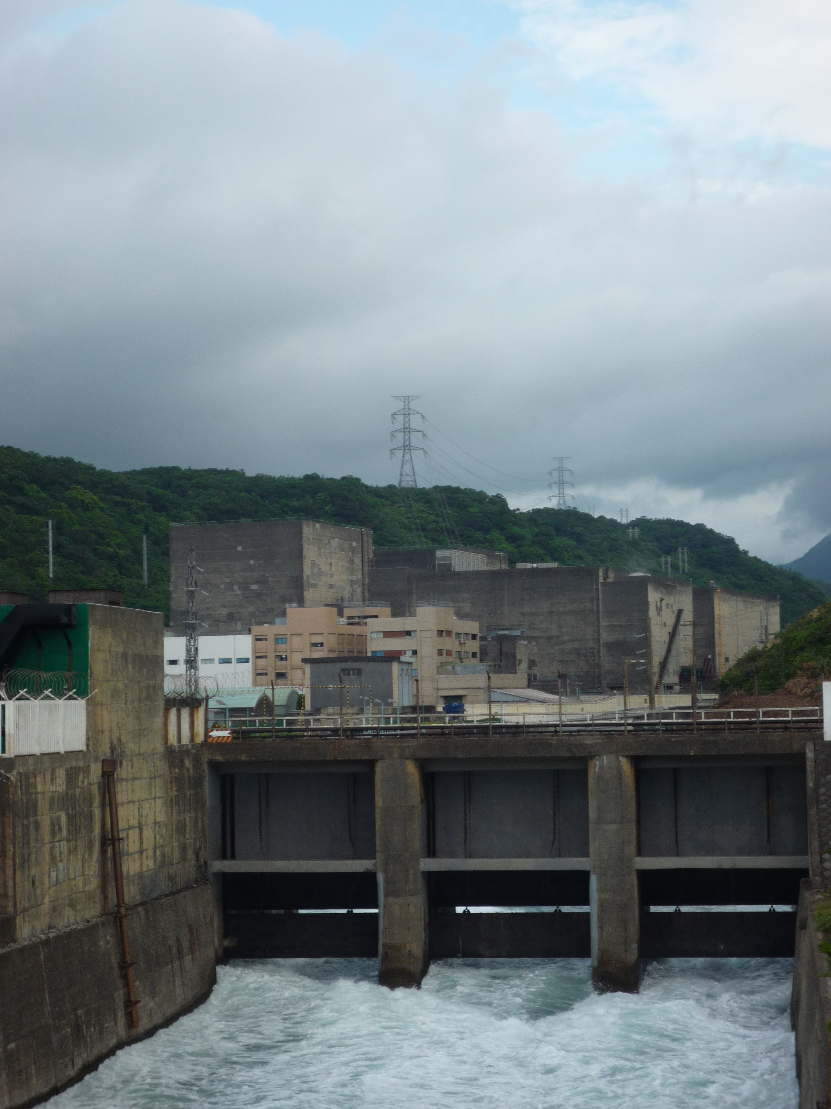 Canal and containment building of Chin-shan Nuclear Power Plant.